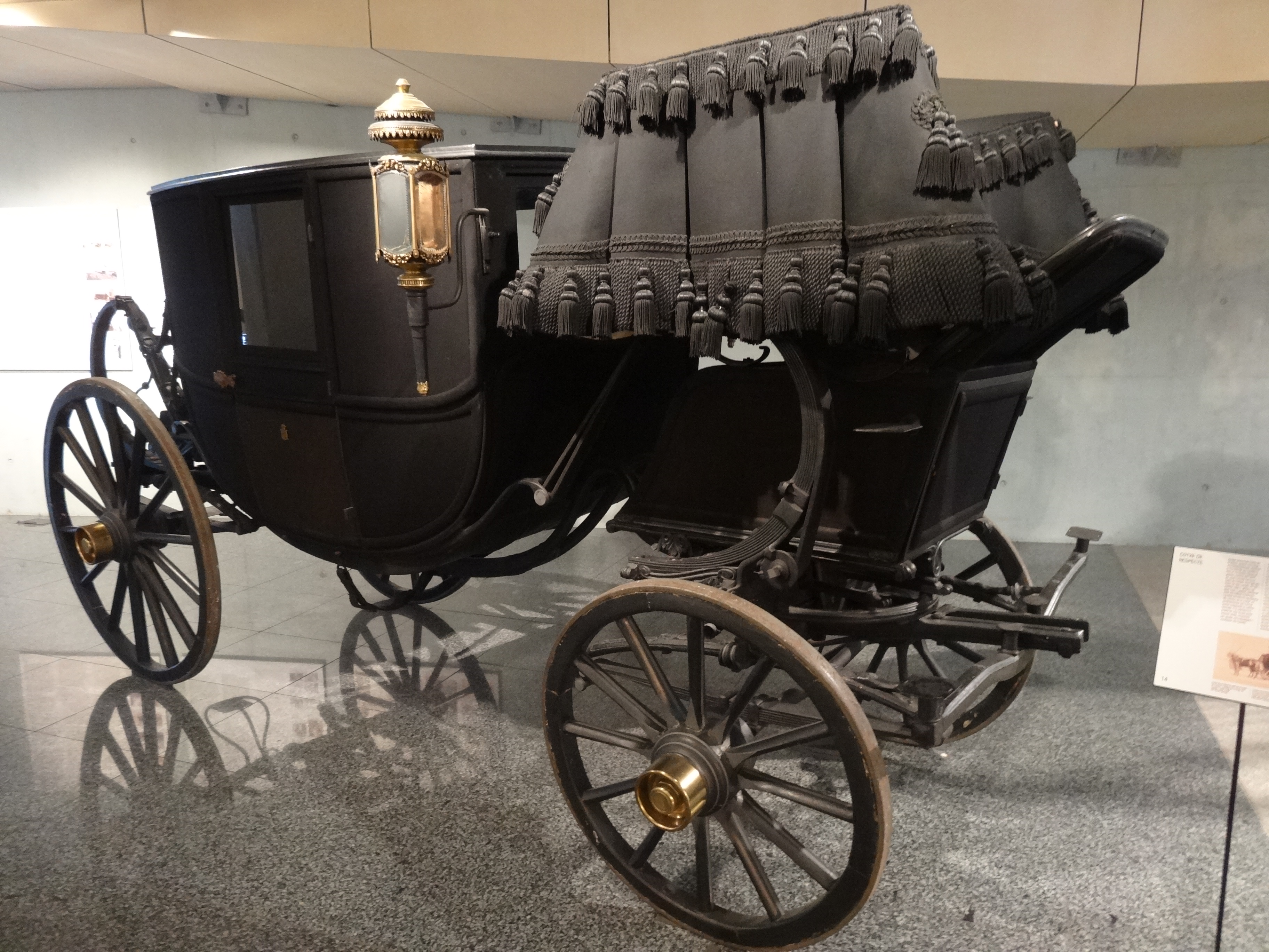 Funeral carriages collection at the Montjuïc Cemetery, Barcelona.